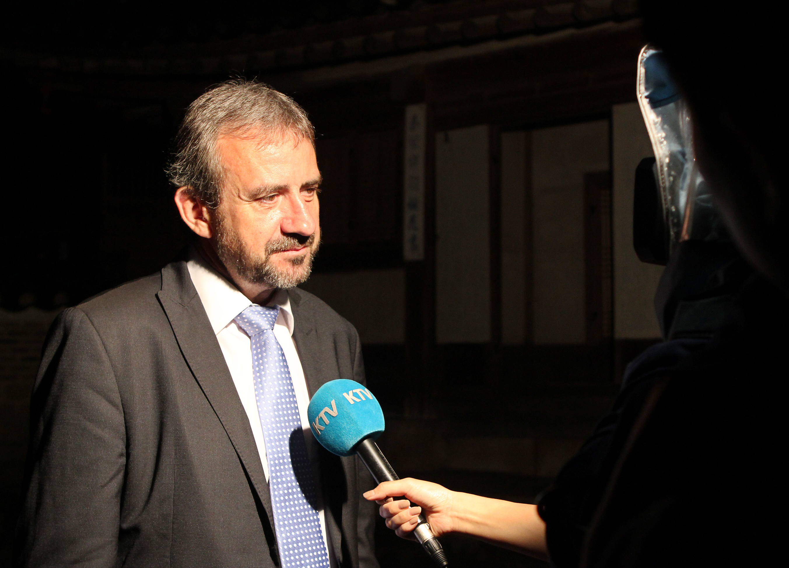 Hermann Parzinger (Chairman of the board, Stiftung Preussischer Kulturbesitz) being interviewed by KTV